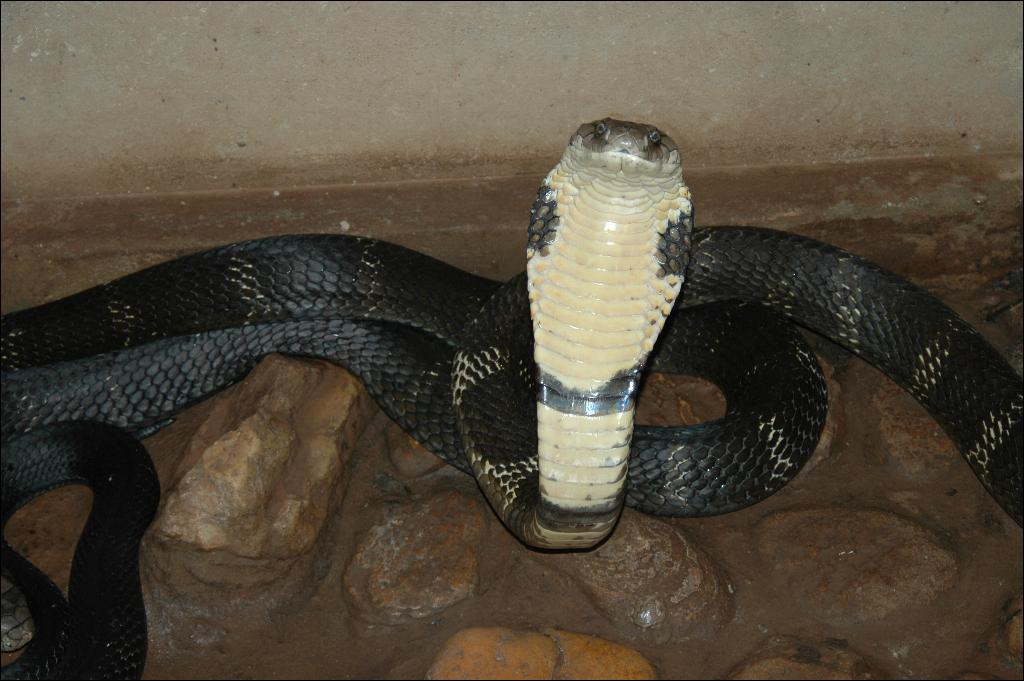 A King Cobra in captivity. Dr. Aithal's Snake park, Puttur.